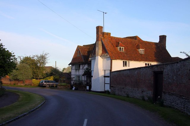 Coscote Manor and Yew Tree Farm, Oxfordshire (formerly Berkshire)